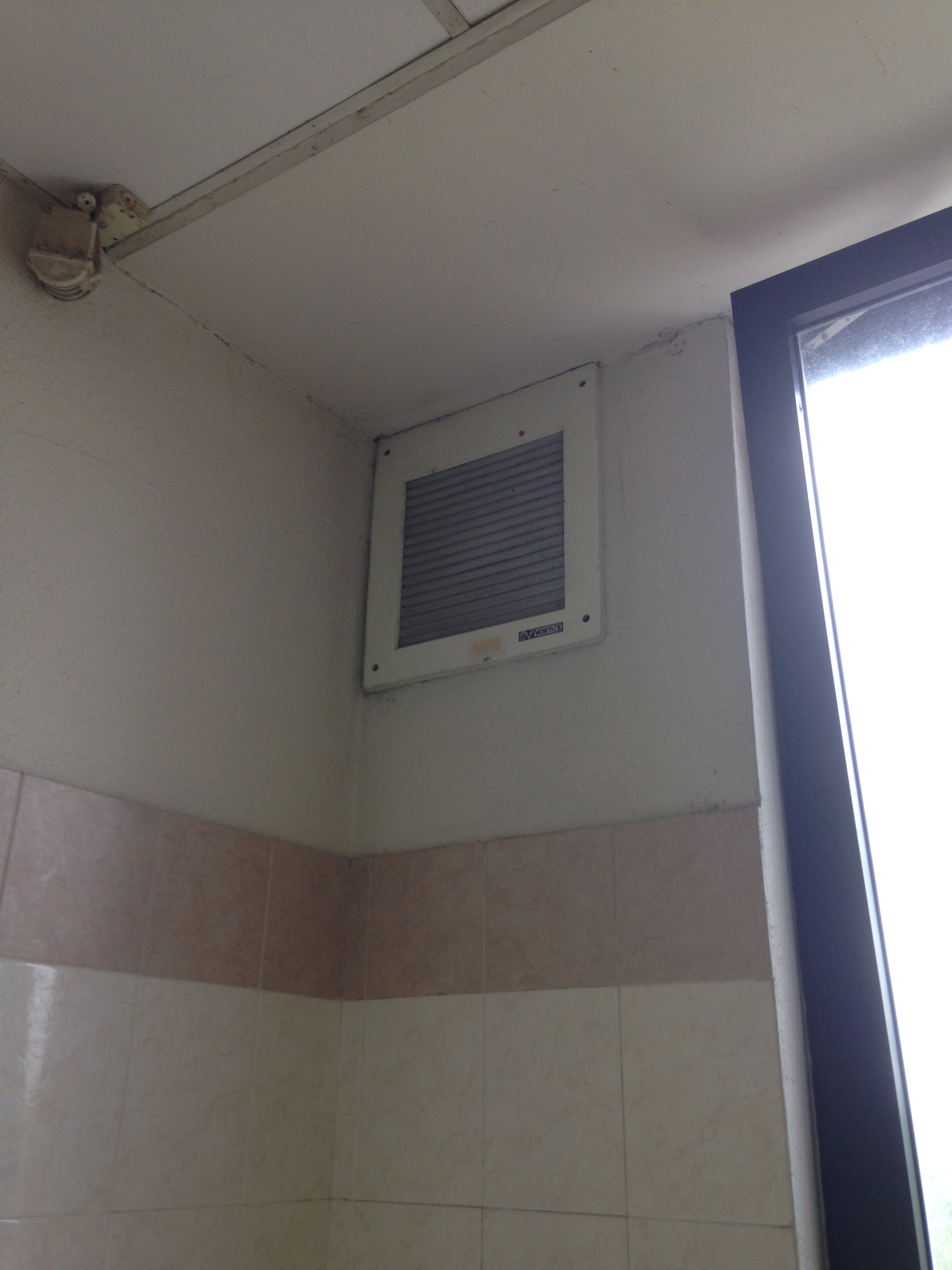 Vortice Extractor fan with air dampers at Autogrill bathroom